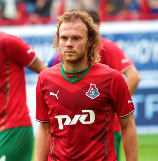 Vitaliy Denisov Loc